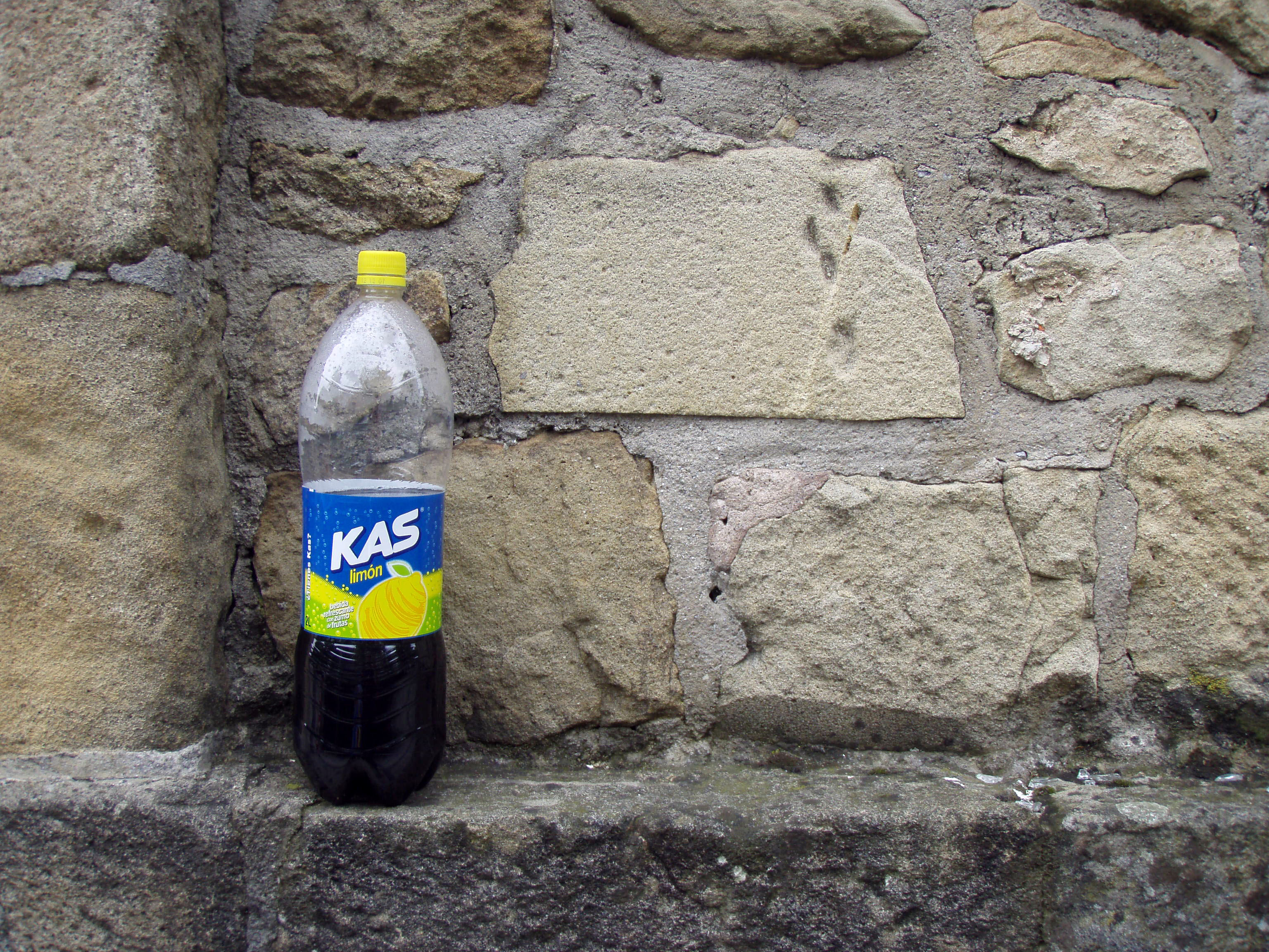 Kas de limón, a spanish beverage.